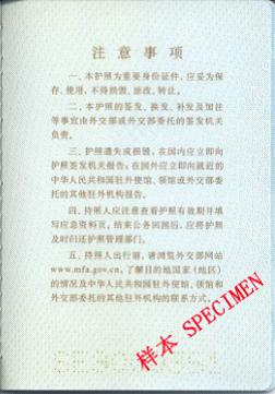 Note Page of the Chinese Service E-Passport.